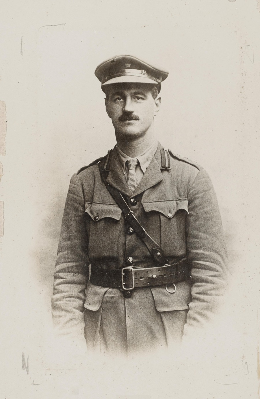 Photograph of Captain Thomas Martin Wilkes (1920), Great War medal recipient from New Zealand. Archives New Zealand Reference: AALZ 25044 1 / F692 26 Part of a series of photographs obtained by the New Zealand National Museum provided by families of New Zealanders who had received a medal during the Great War.